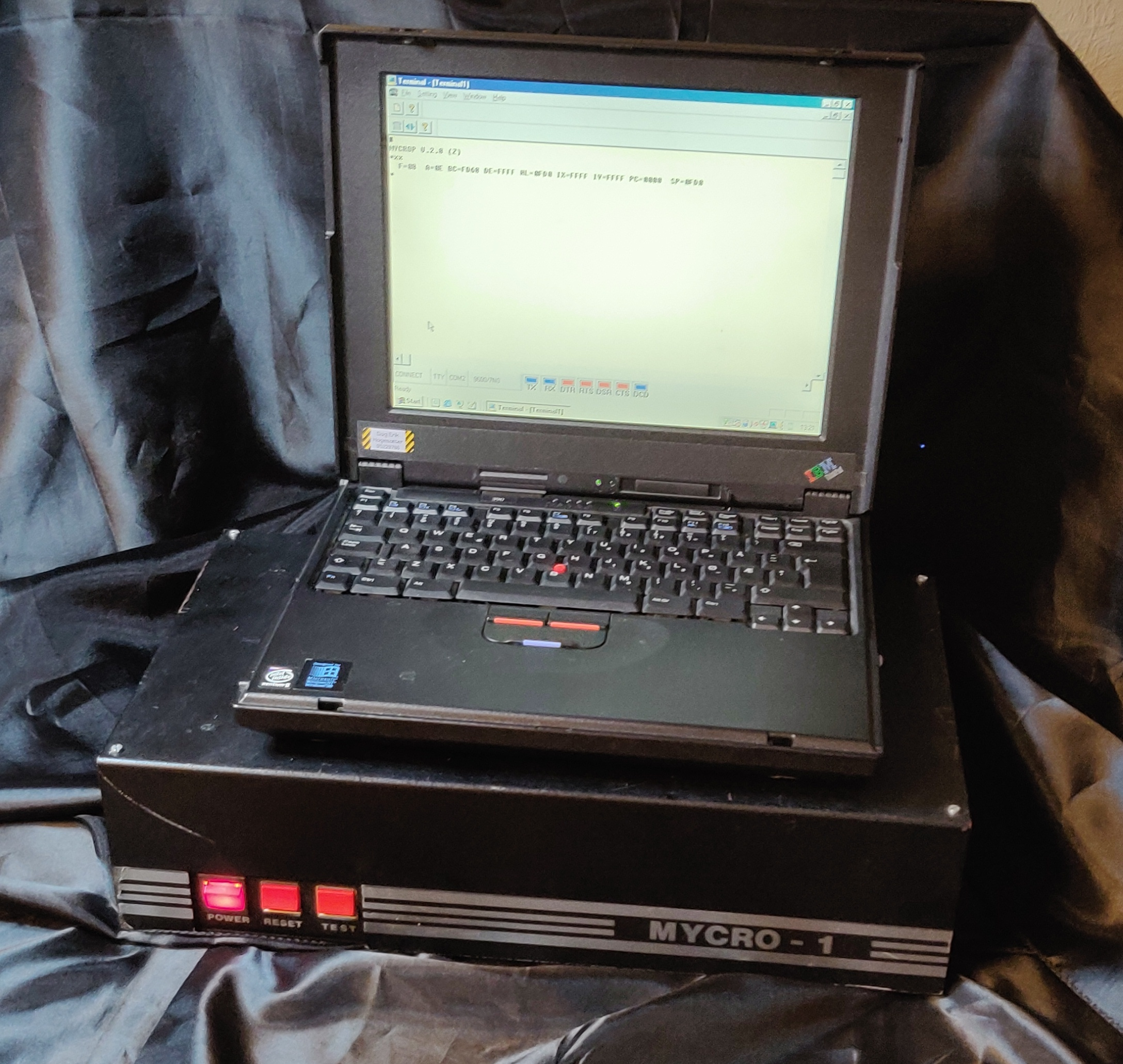 Mycro-1 connected to a terminal emulation. The screen is showing the greeting: MYCROP V.2.8 (Z). Photo taken by Dag Erik Hagesæter